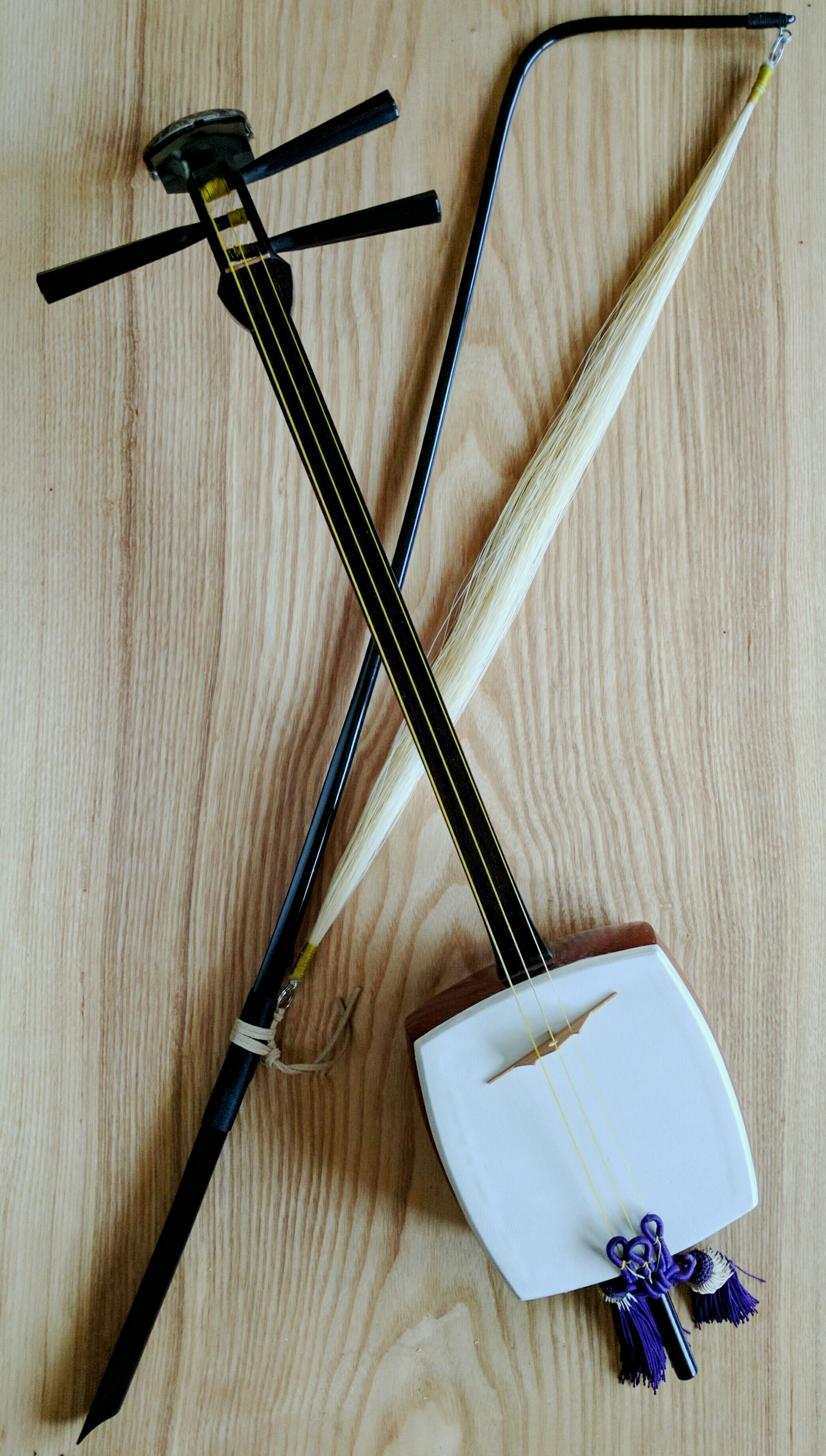 A Japanese Kokyu. This kokyu was built ca. 1920 by Masakichi Ueda in Tenjinbashi Ward, Osaka, Japan.